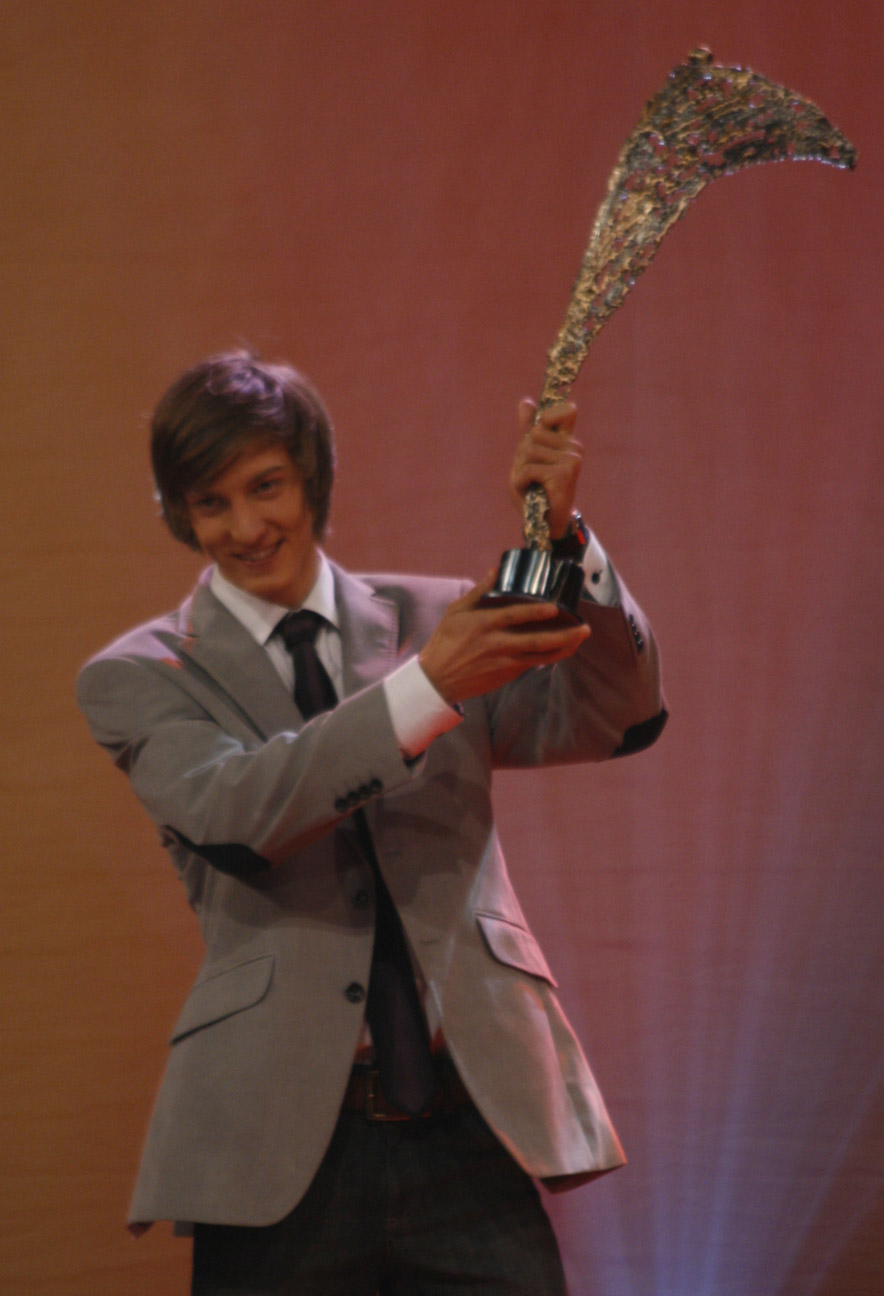 Austrian ski jumper Gregor Schlierenzauer at the Galanacht des Sports (Gala-Night of Sports), where he was honoured as Austrian Sportspersonality of the Year 2008 as a member of the ski jumping team.